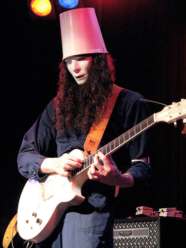 Buckethead - Primer show después de 4 años (The Granada Theatre, 2016).